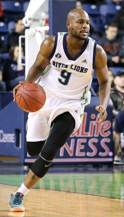 Sutherland in game action